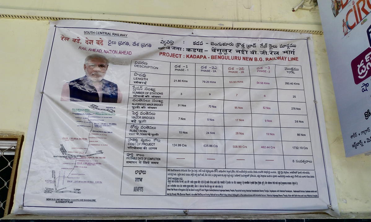 hx sbc line alingment